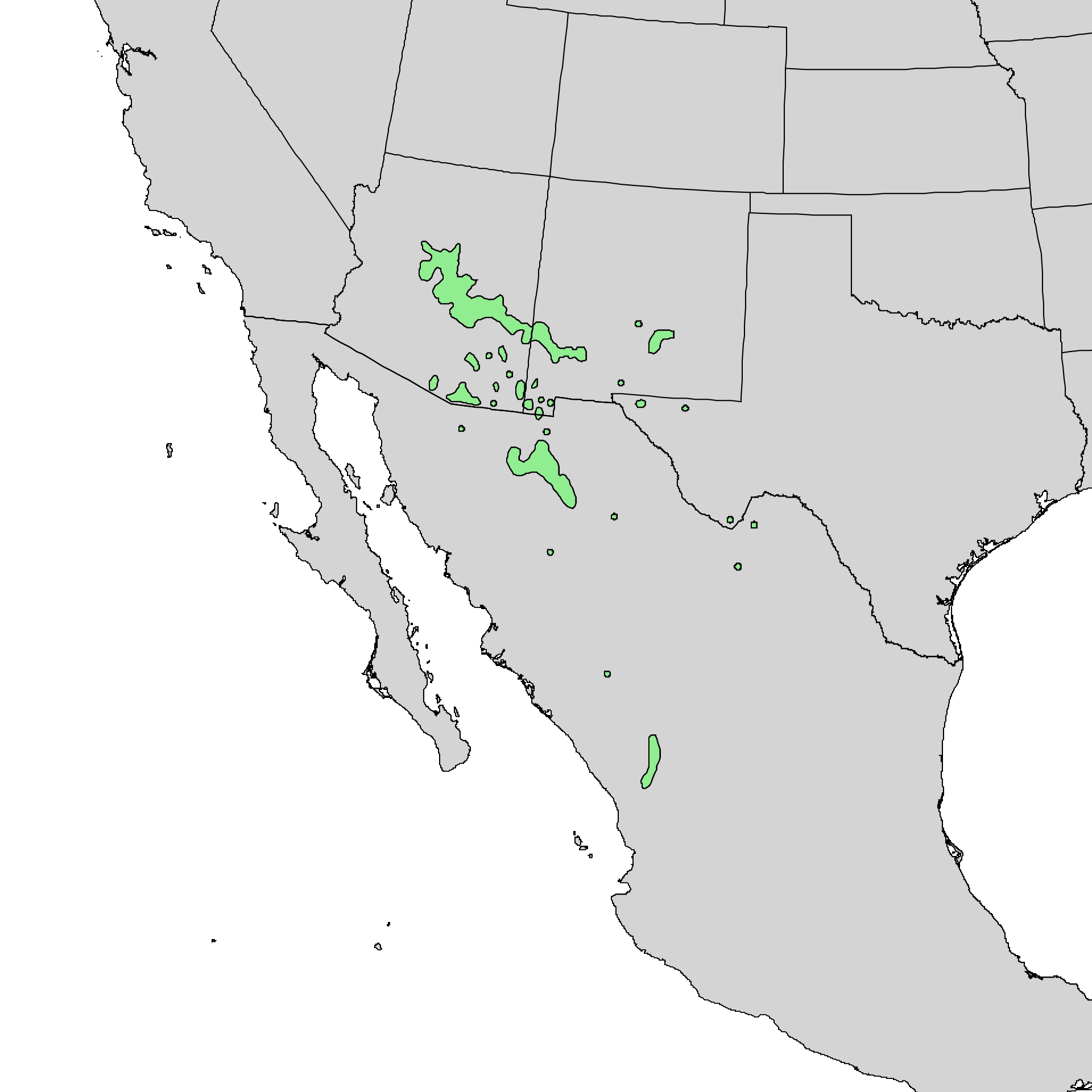 Natural distribution map for Quercus arizonica